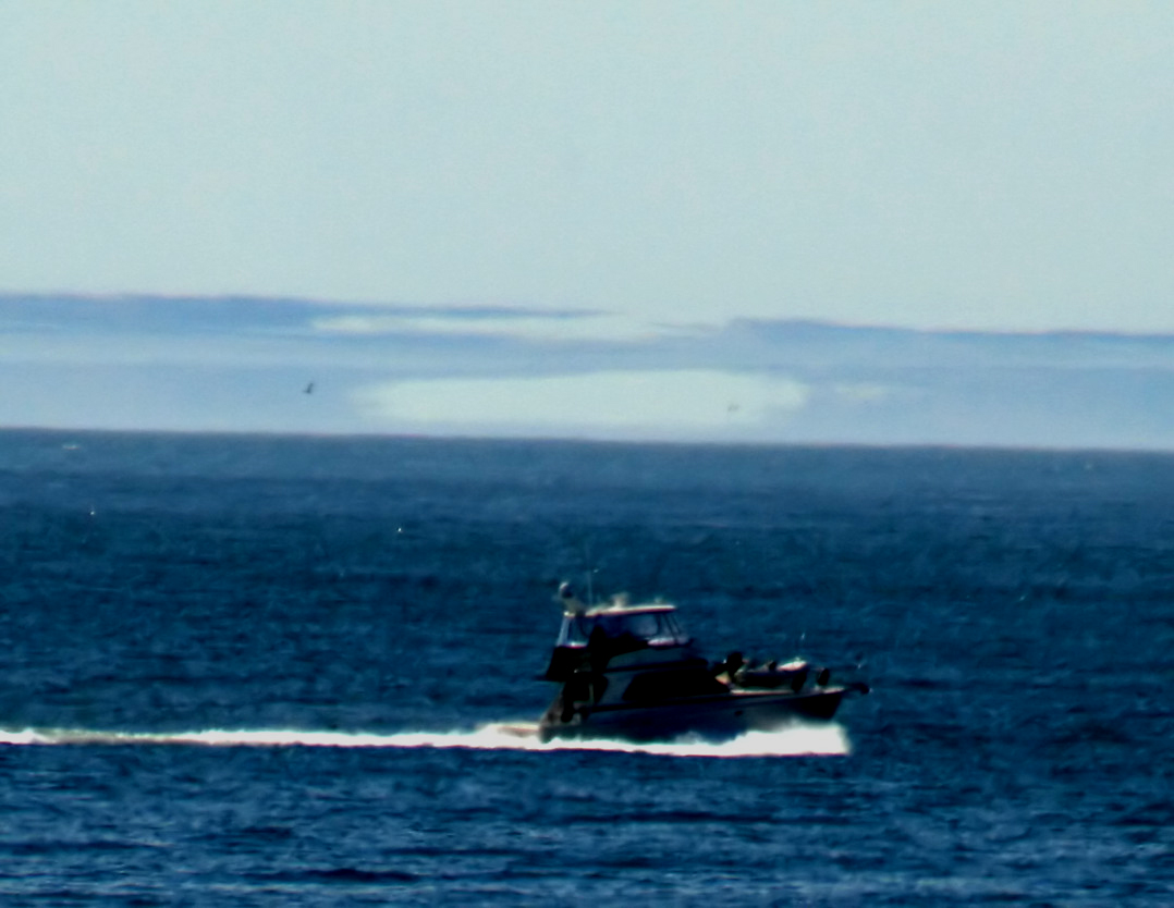 Superior Mirage of Point Reyes National Seashore as seen from San Francisco.